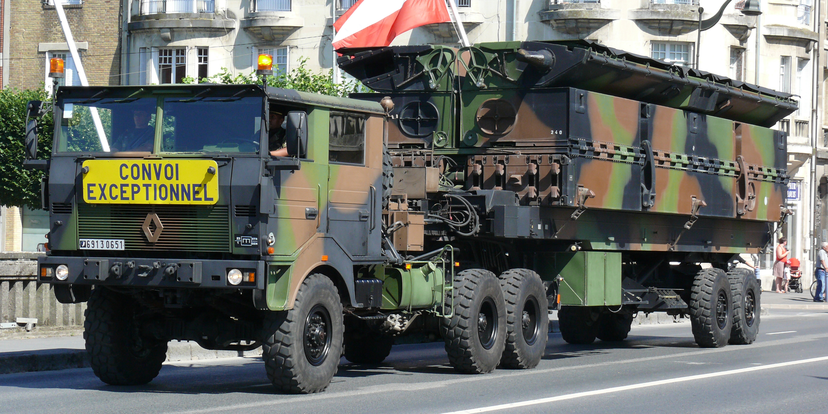 Pont flottant motorisé (PFM - Motorized floating bridge) of the 3rd regiment engineers, 1st Mechanised Brigade of the French Armée de Terre during the Bastille Day Parade in Charleville Mézières, 2010.